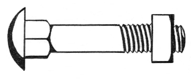 line art drawing of carriage bolt.